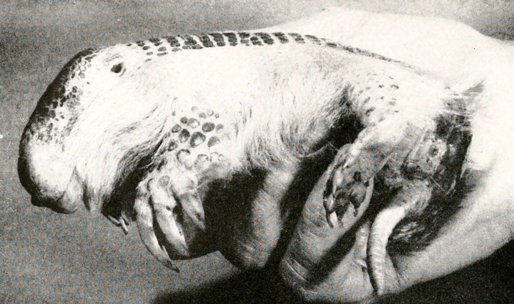 Burmeisteria retusa = Calyptophractus retusus (Greater Fairy Armadillo)